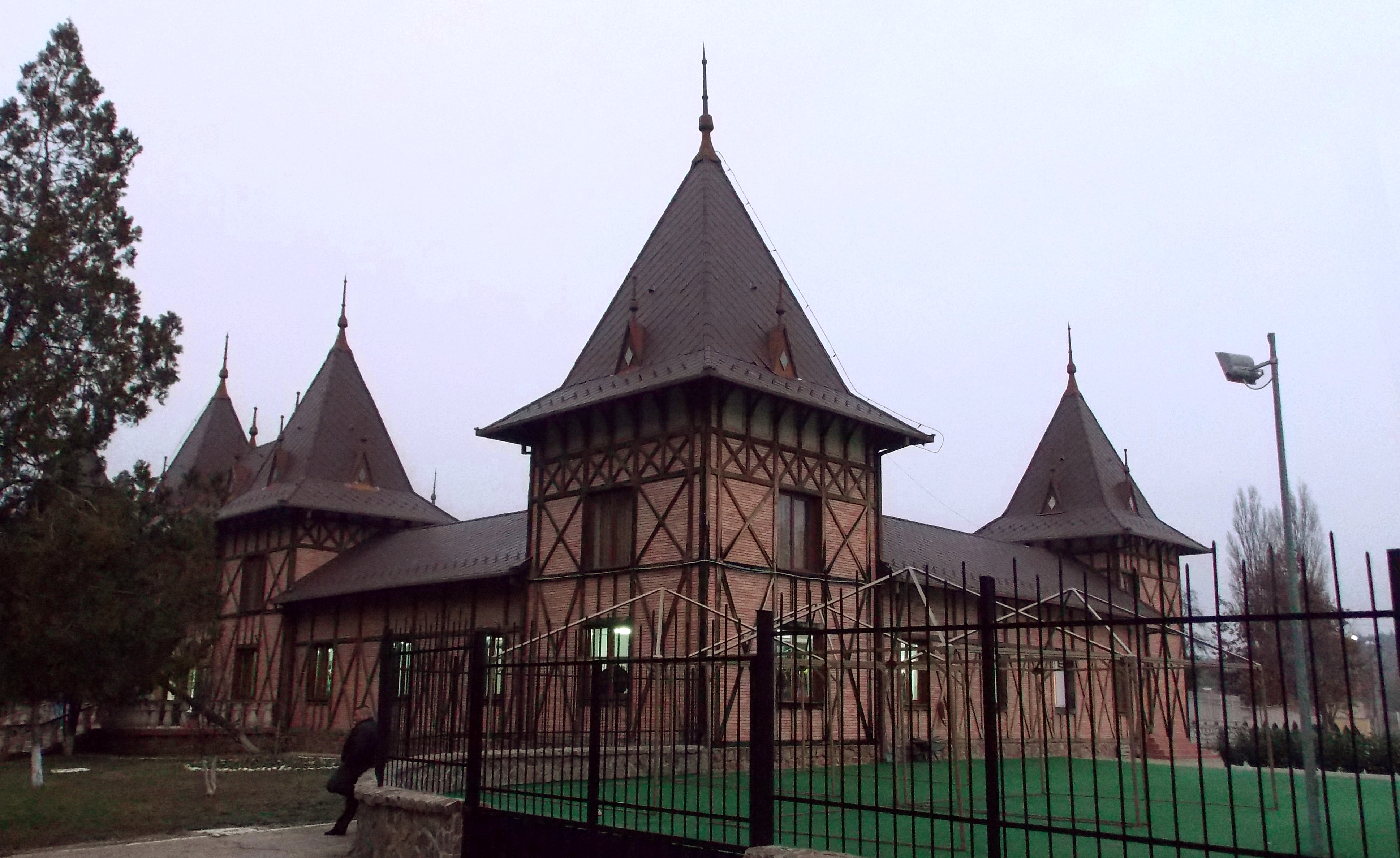 "Apollo" baths - Baile Felix, RomaniaRomână: Ștrandul "Apollo" - Băile Felix